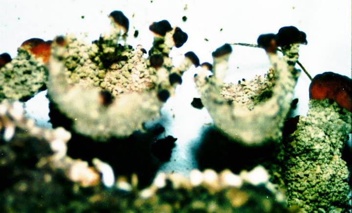 Cladonia pyxidata (L.) Hoffm., 1796 (photograph of a herbarium specimen taken through a dissecting microscope (x10) showing cups with areoles on the inner surface, and brown proliferating apothecia) Growing on a stone wall of a cemetery across the street from the Church of the Brethren, Westminster, Carroll County, Maryland, USA; collected and identified by Elmer G. Worthley and Allen C. Skorepa (No. LH-78, 26 Aug 1984); specimen is now in the Lichen Herbarium of the New York Botanical Garden.